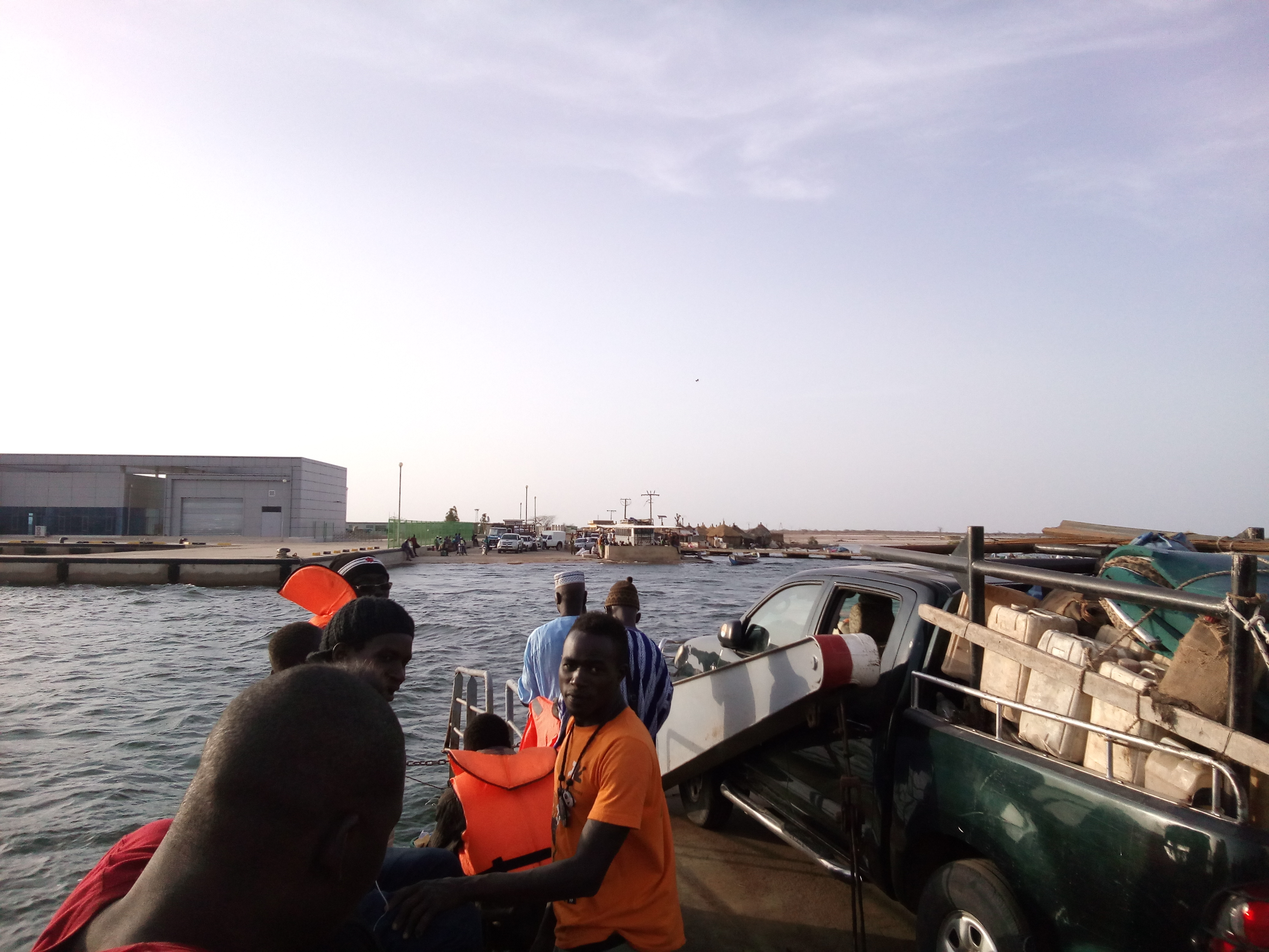 On the Foundiougne ferry, approaching the right bank of the Saloum, landing in the direction of Fatick (Senegal).